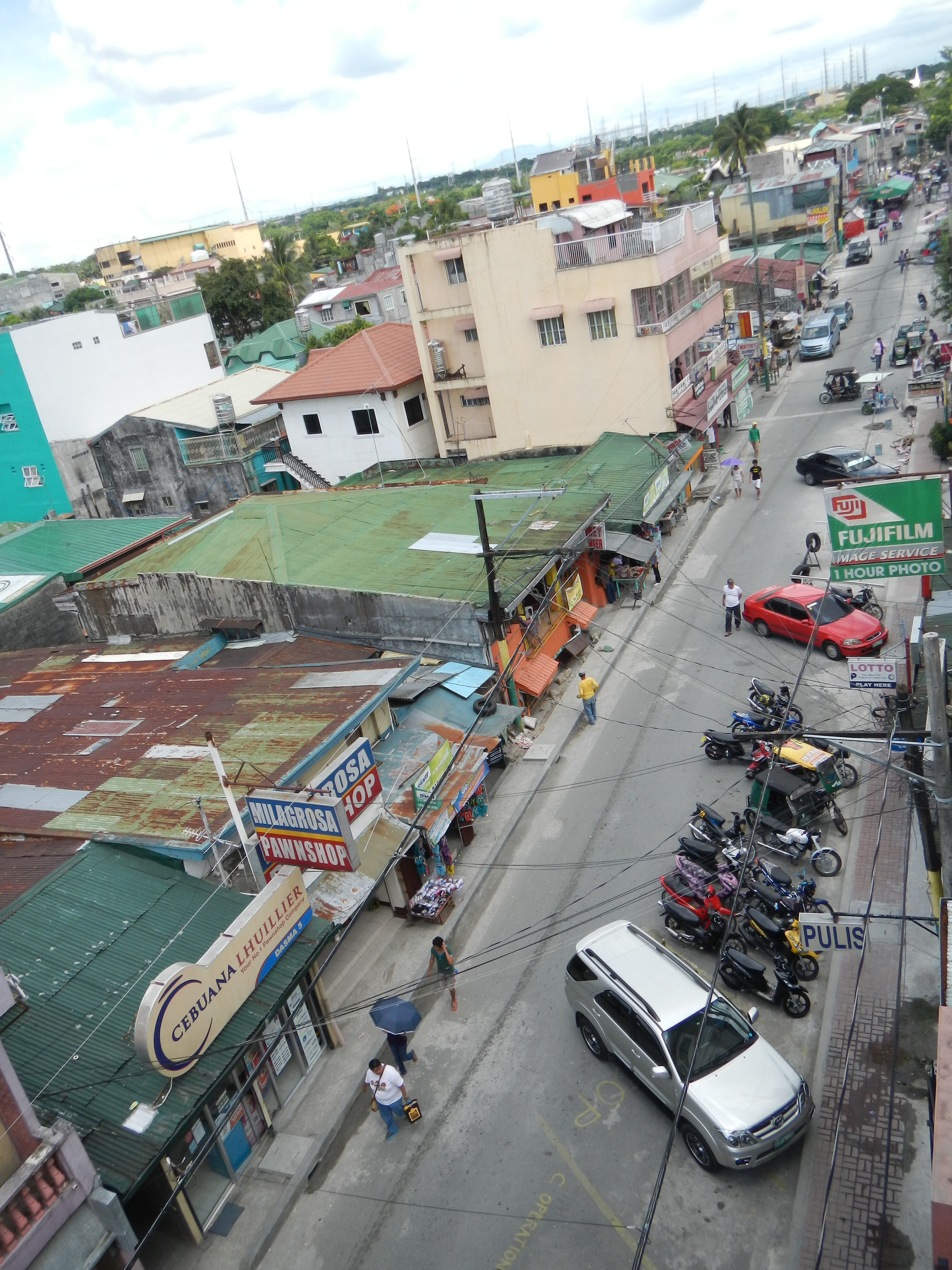 View of surrounding Barangays, buildings and nearby landmarks from the 3rd floor of the Dasmariñas City Hall [1] in downtown - Coordinates: 14°19'35"N 120°56'10"E - Dasmariñas[2] Website Dasmariñas, officially the City of Dasmariñas (often shortened to Dasma; Filipino: Lungsod ng Dasmariñas) is the largest city, both in terms of area and population in the province of Cavite, Philippines. Website ---------[N.B. June 7, 1st Friday, 2013 Photography of - From Bulacan at 9:05 a.m., I took photo of Dasmariñas [3] City at 12:49 pm, the Aguinaldo Highway, then, at 3:35 pm, I took photo of Carmona, Cavite [4] - I finished San Lazaro Carmona Race Track, Carmona Welcome Arch and Binan Laguna Welcome Arch and Araneta Coliseum Quezon City at 8:31 p.m. and started uploading via slow internet next day June 8, 2013 at 6:59 pm - I hereby certify that these rarest, raw, original and unedited photos are exclusive for Commons and Wikipedia never uploaded in any Internet or any site, and for the public domain without any condition.]